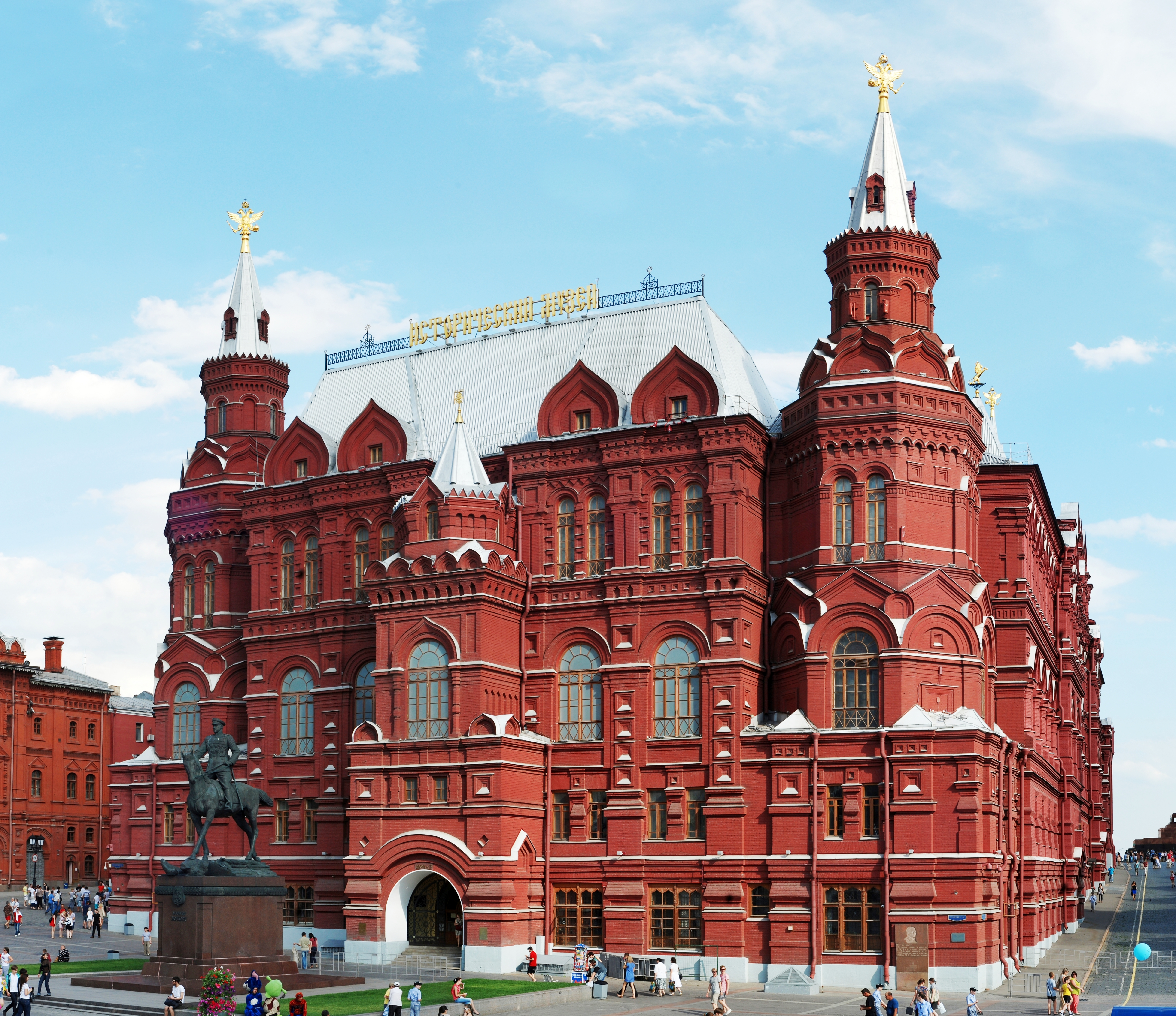 The State Historial Museum, Moscow. View from northwest.